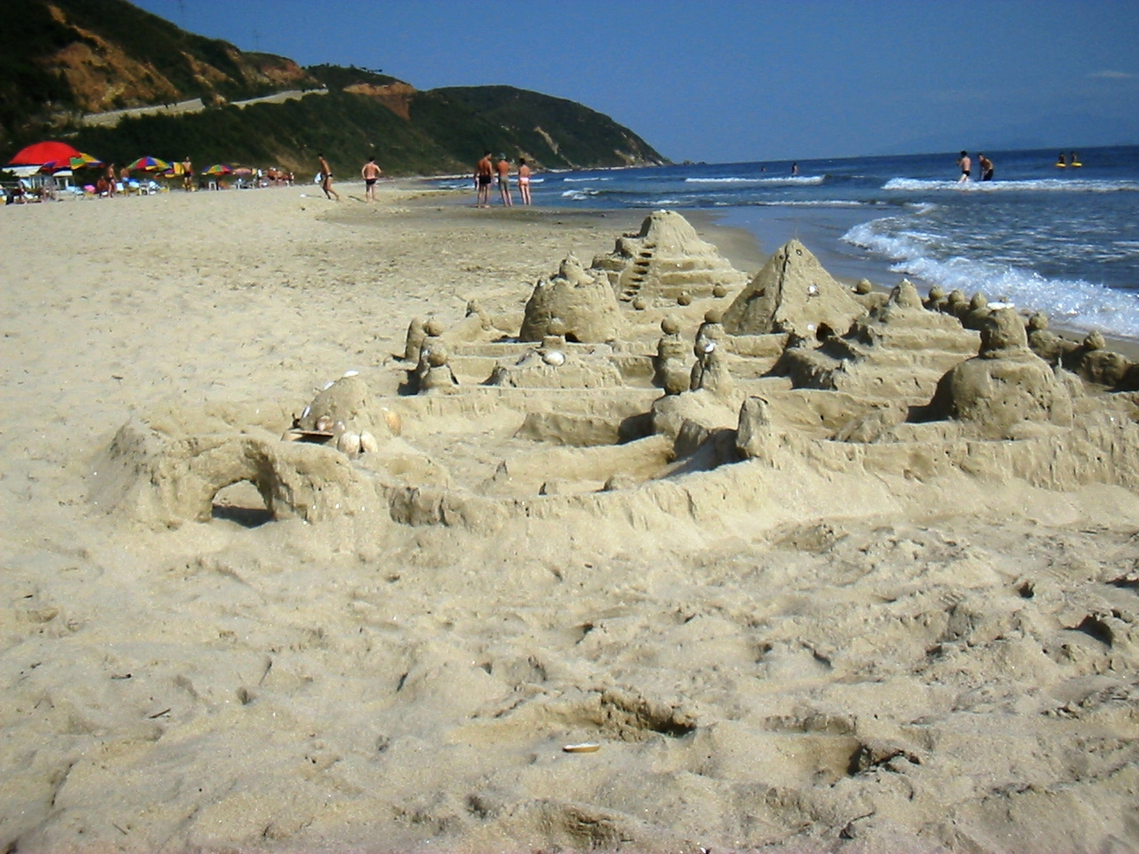 Beach near Wonsan, North Korea